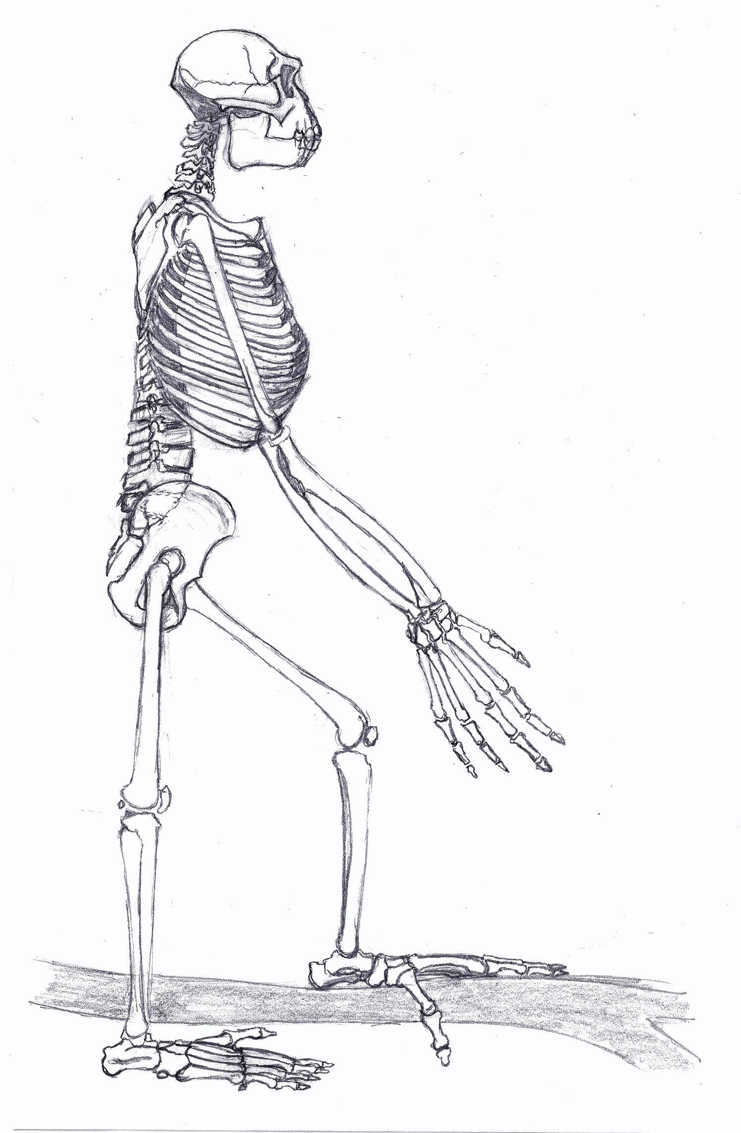 Ardipithecus